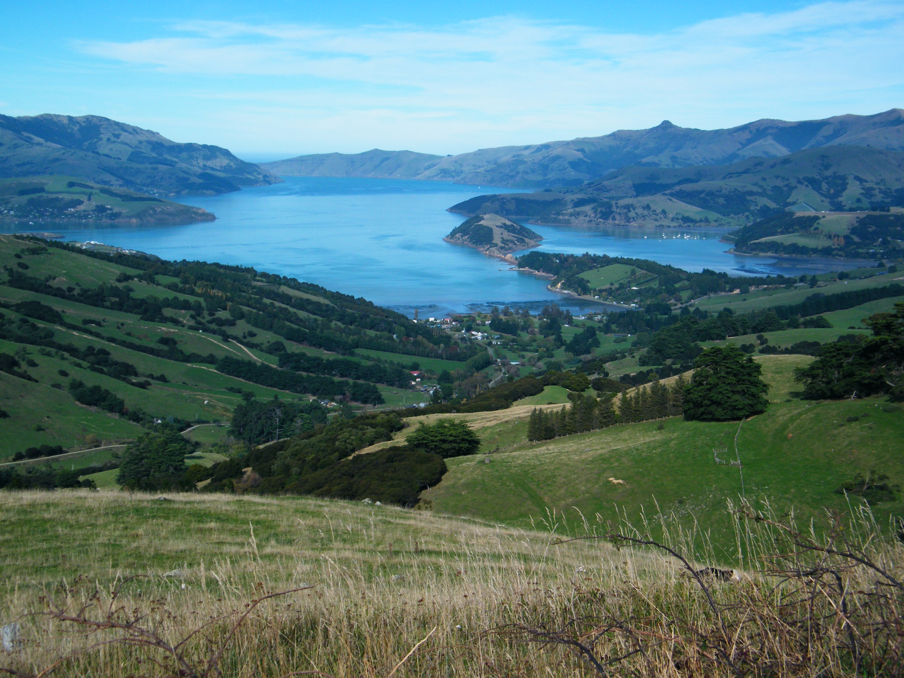 Akaroa Harbour from the Summit Road past Hilltop.